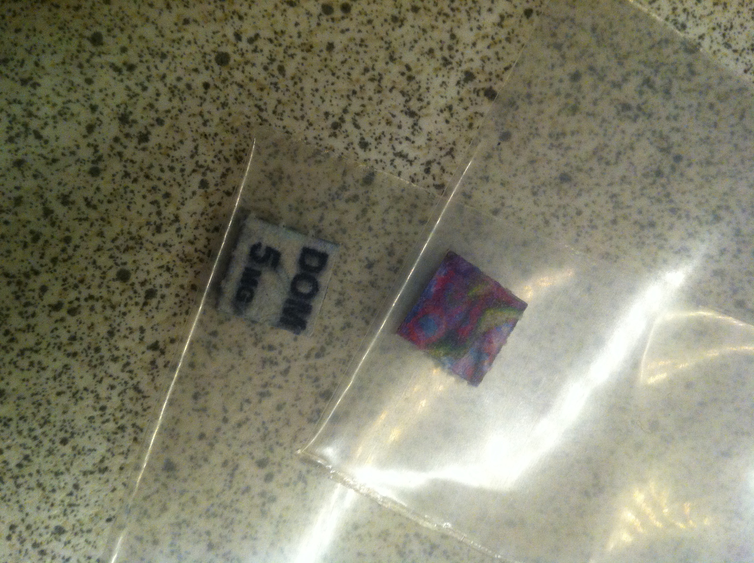 5 mg DOM (2,5-Dimethoxy-4-methylamphetamine) Blotters.